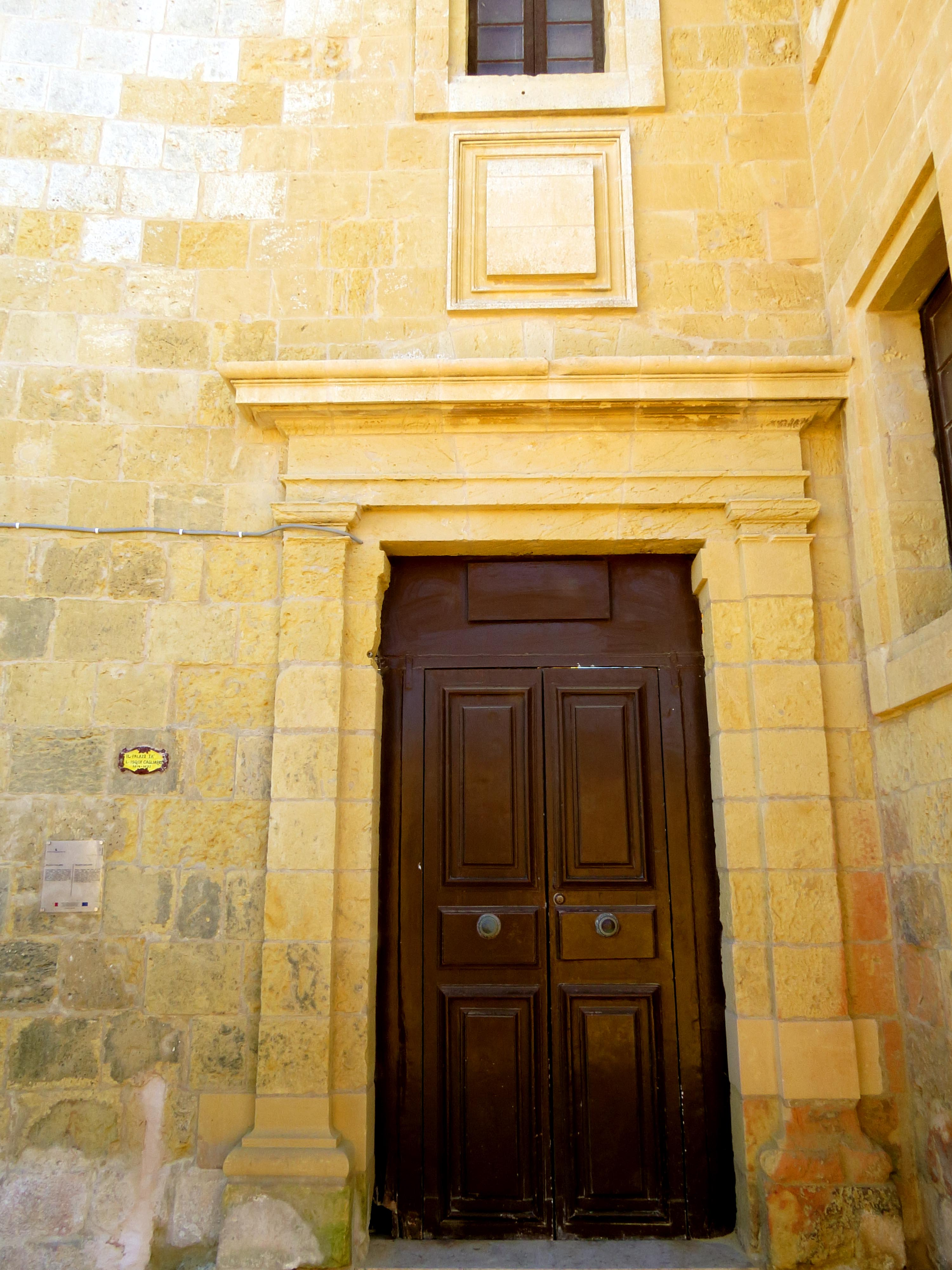 Cagliares Palace This media is about Maltese cultural property with inventory number 01238.